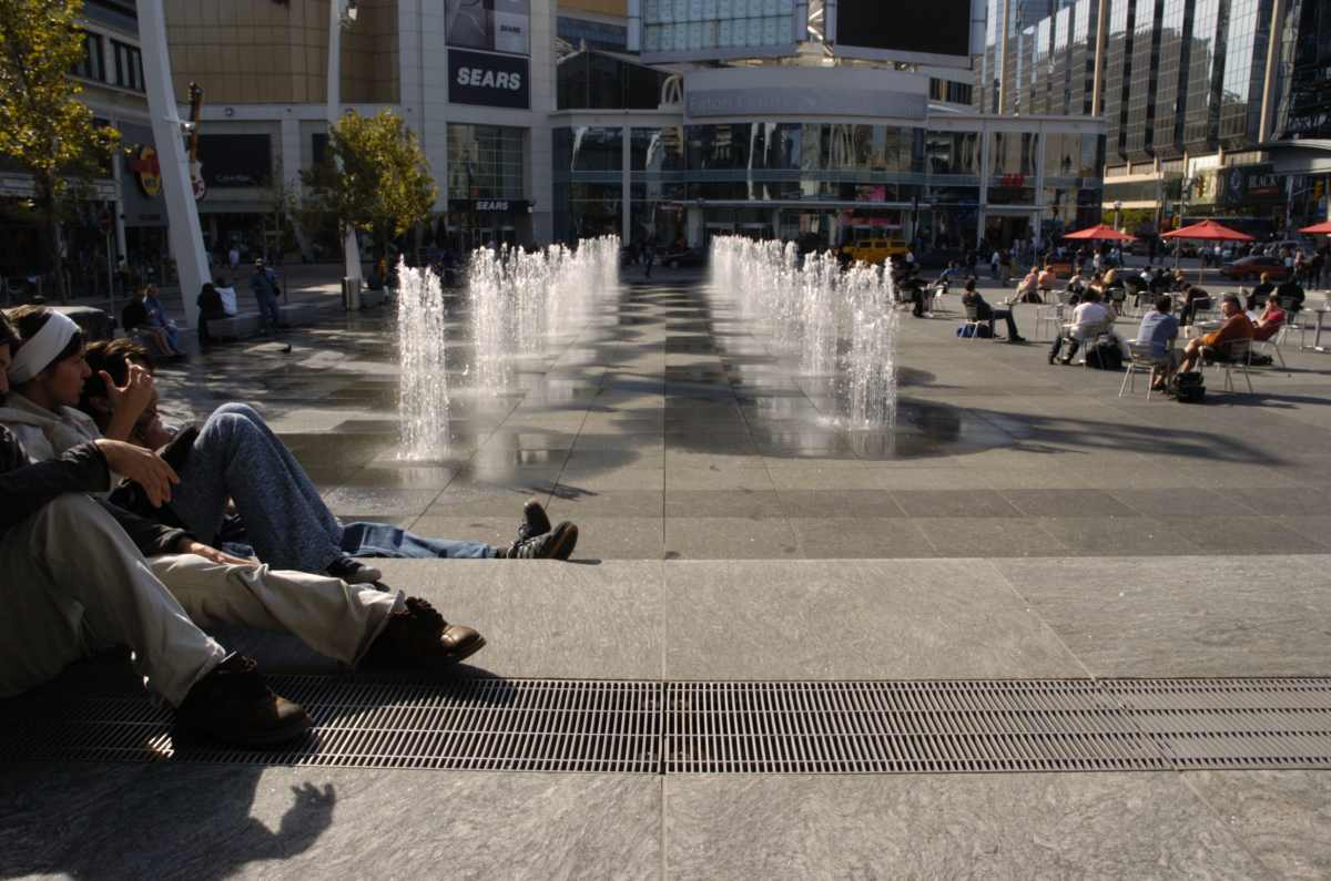 Young-Dundas Square Urbeach on a warm day I took this picture at the urban beach today, since it was nice and warm (25 deg. C), very unseasonably warm for Toronto at this time of year. I captured this image using a modified Nikon D2h, with wearable computer system, etc... Copyright (c) 2004, Steve Mann. Permission is granted to copy, distribute and/or modify this experience under the terms of the ePi Lab Shared Experience License, Version 1.0 or any later version published by the EyeTap Personal Imaging Laboratory. In compliance with the Terms of the above license, the full resolution version of the Personal Experience capture is hereby provided by reference (URL) as a link to